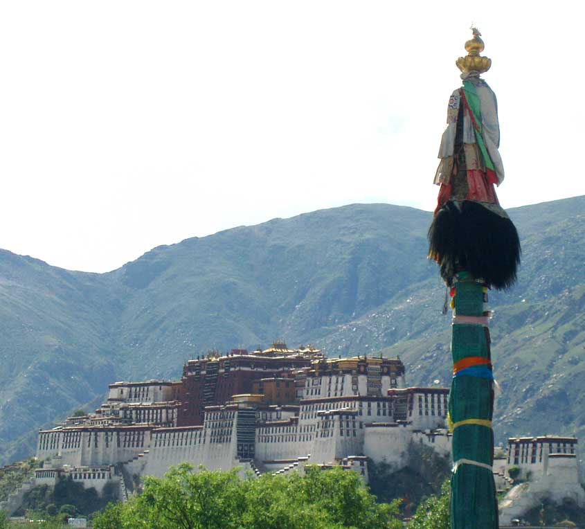 Author: Kosi Gramatikoff, photography: Phill (Xiaolei Yuan, Windsor, Ontario) (Tibet 2005), Dhvaja (Victory banner) - pole design with silk scarfs, on the background the Potala Palace.